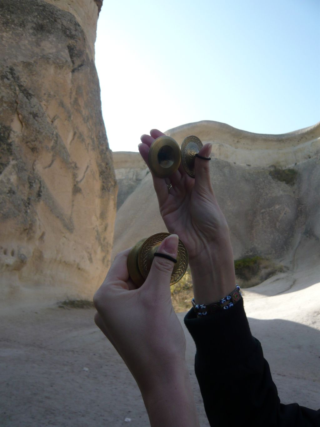 pair of zills